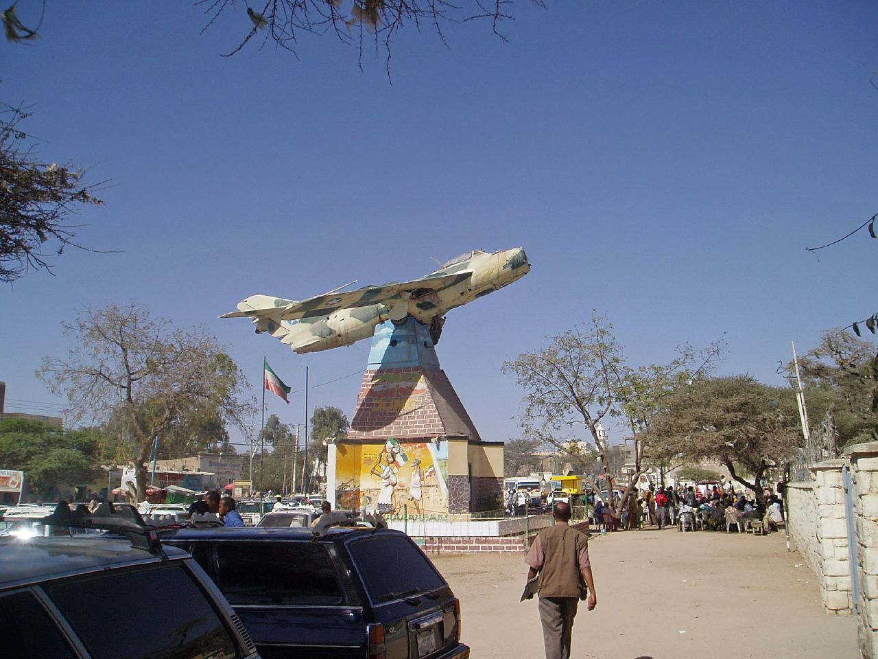 During the civil war, this plane was shot down during a bombing mission. The plane has now become a monument in the centre of Hargeisa. Most of the people you meet have a brutal story to tell.